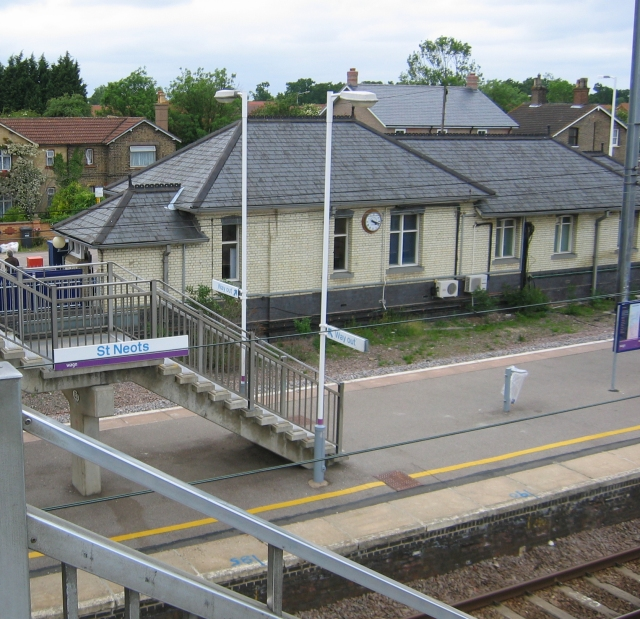 St. Neots railway station. Station building seen from footbridge over tracks, looking approximately west.